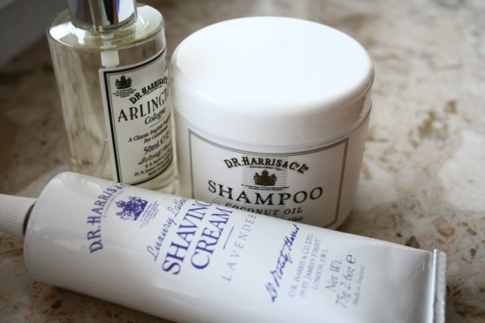 D. R. Harris products. Shaving cream, shampoo and cologne